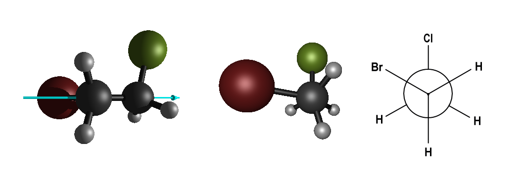 Molecular model and Newman projection of gauche-1-bromo-2-chloroethane